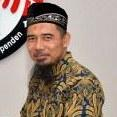 Chairperson of KPI Pusat Agung Suprio took a photo with the ARTVISI Advisory Board, Ustaz M. Elvi Syam, from Surau TV Padang. Indonesian Broadcasting Commission (KPI) audience meeting with the Indonesian Association of Islamic Radio and Television (ARTVISI), at the KPI office (1/20/2020).